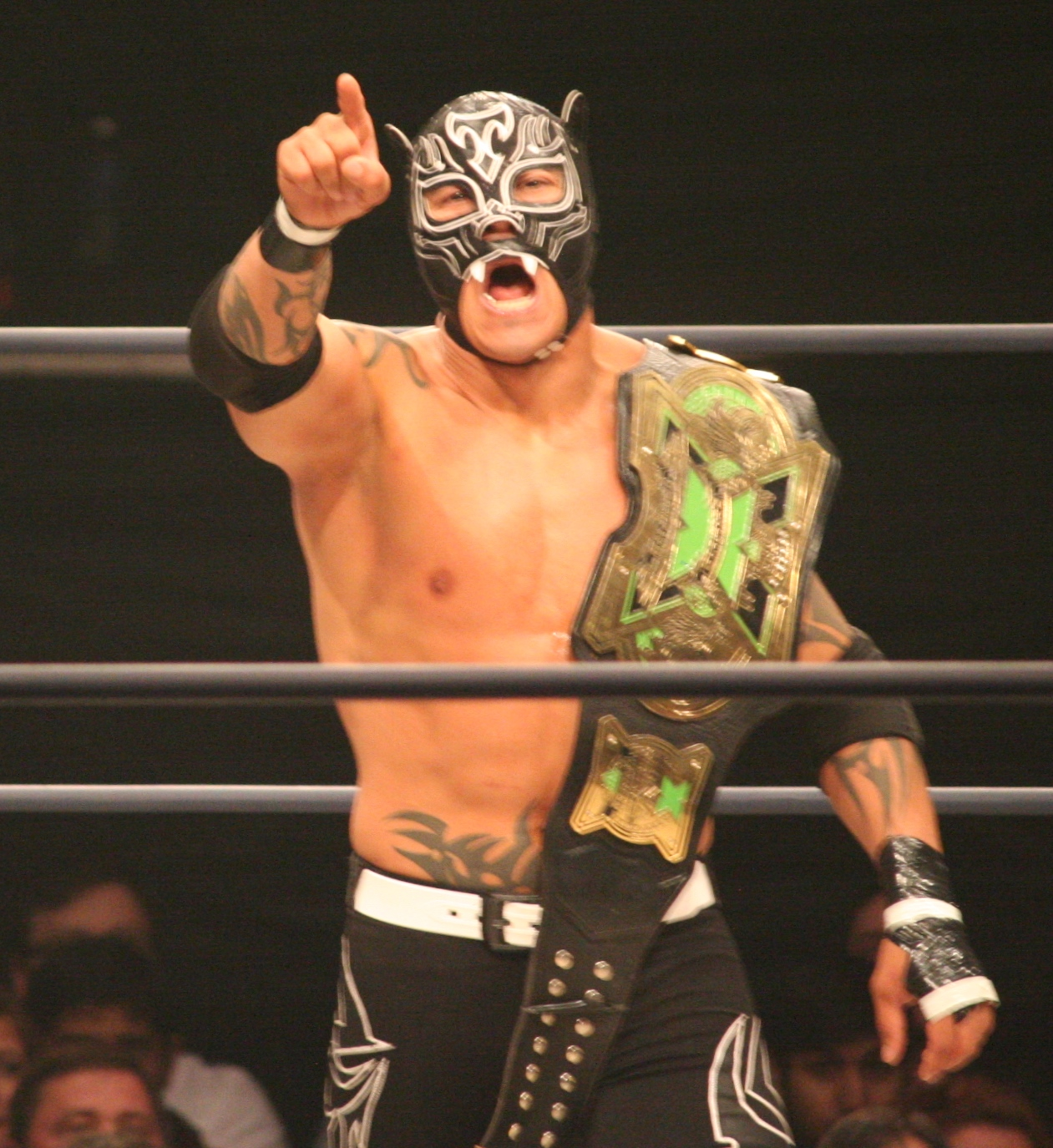 Tigre Uno as TNA X Division Champion at Bound for Glory in 2015.